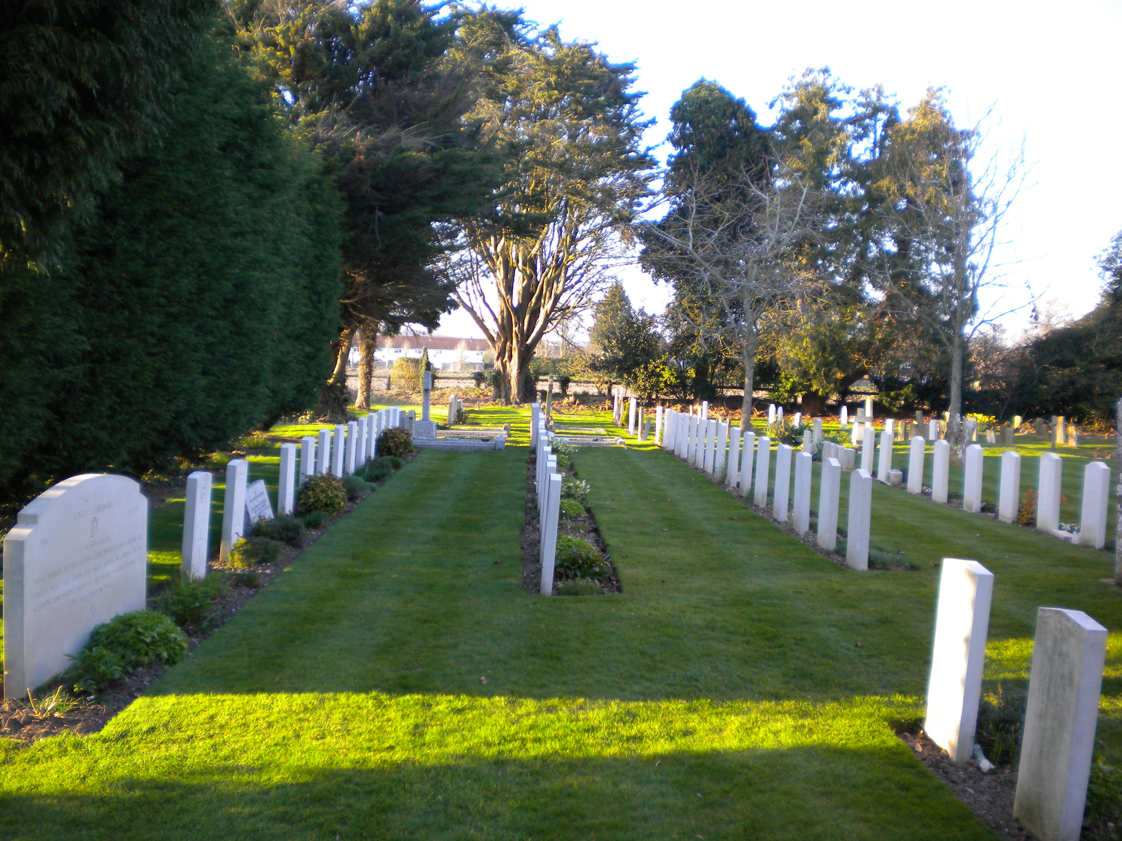 German (front right) and Commonwealth airmen's war graves at St Andrew's Church, Tangmere, West Sussex, England. The larger stone, front left, is a memmorial to airmen of both sides lost at sea.